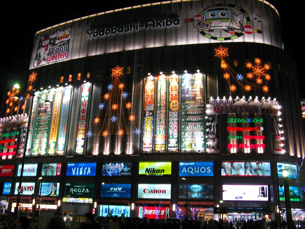 Yodobashi Camera building in Akihabara, Tokyo.